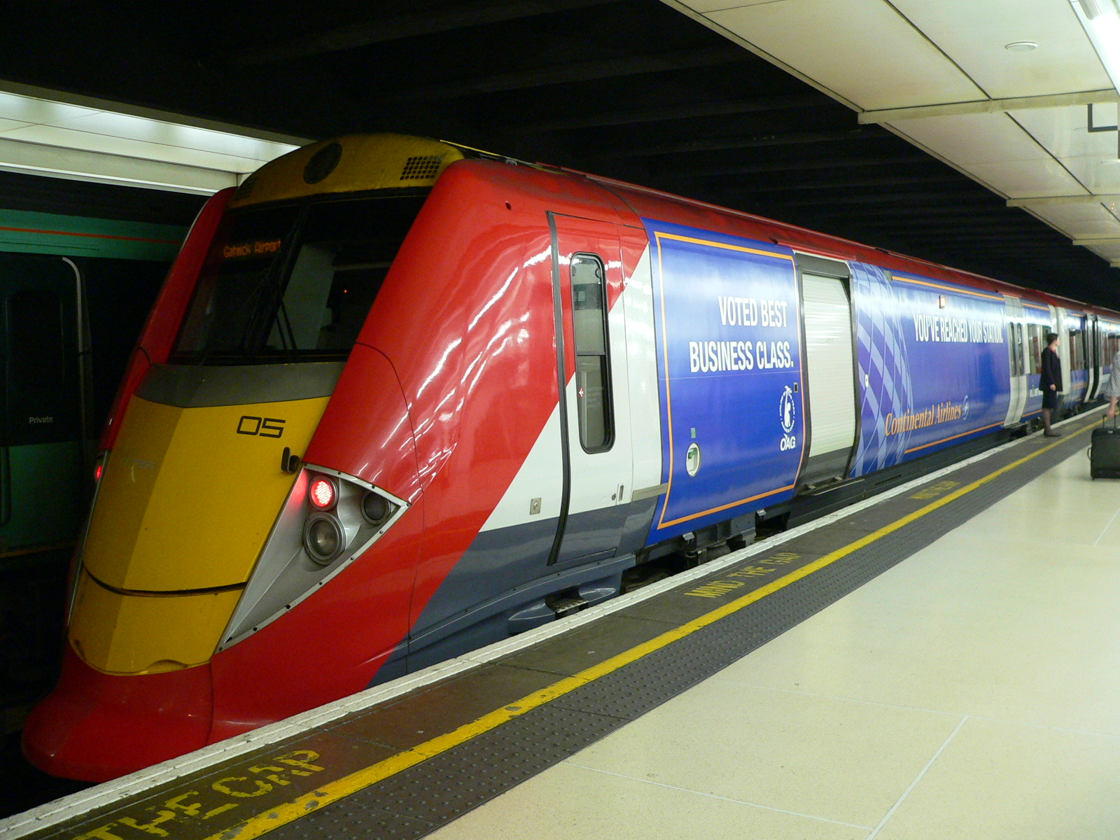 Gatwick Express Class 460 electric multiple unit 460005 at London Victoria station on 24 October 2005.